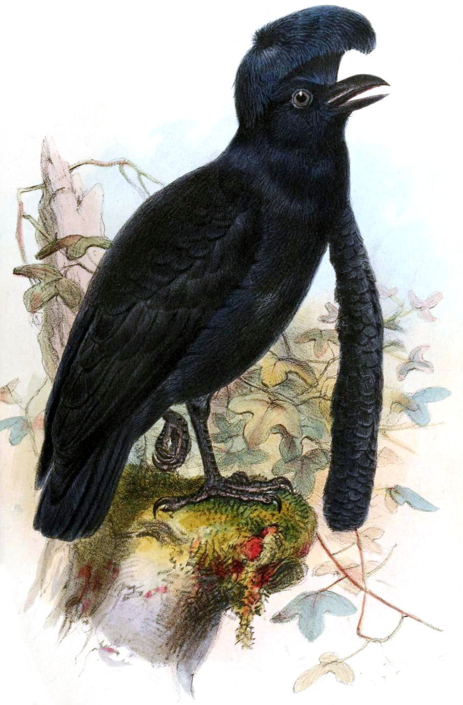 « Cephalopterus penduliger » = Cephalopterus penduliger (Long-wattled Umbrellabird)